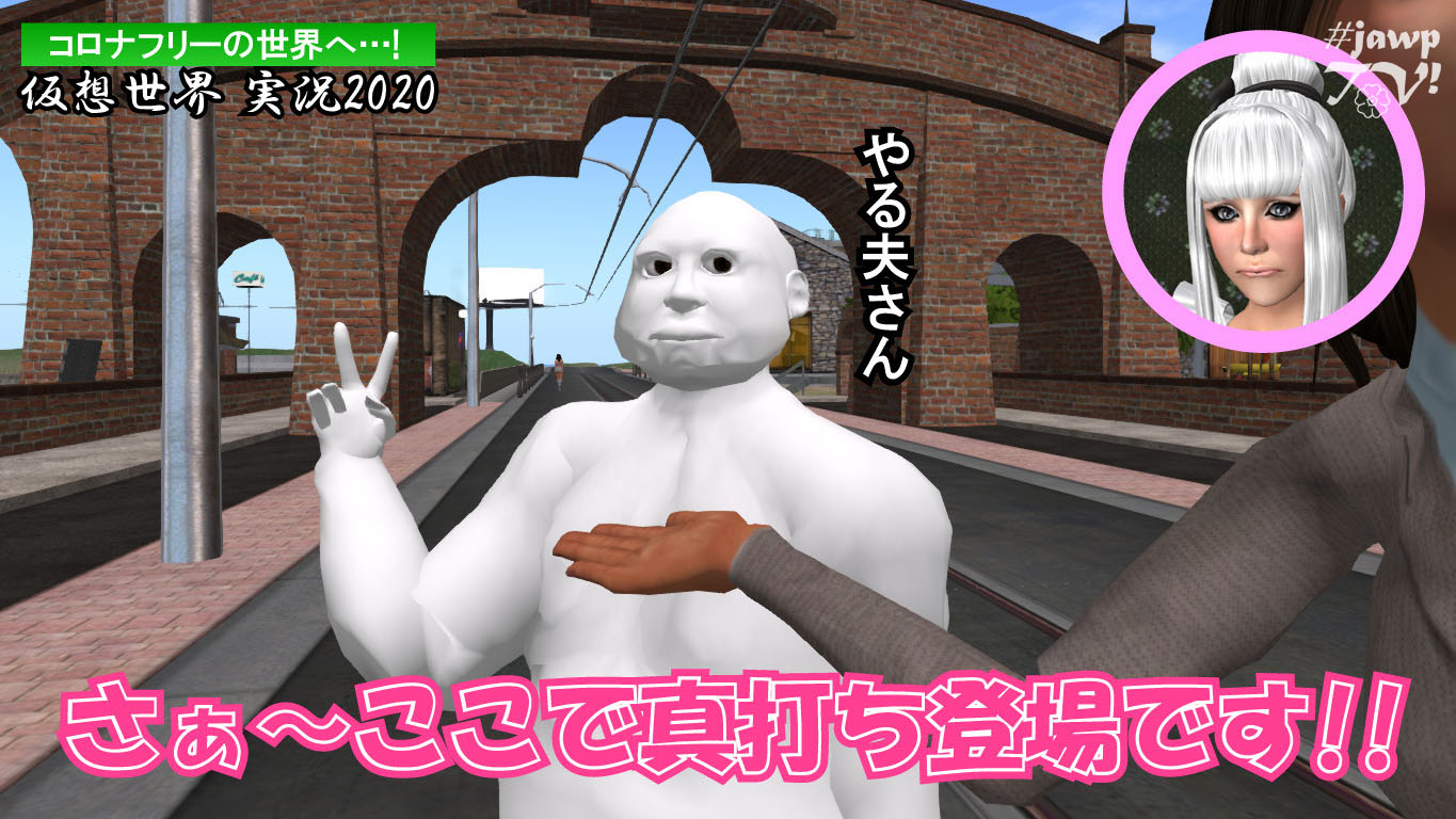 Example of Japanese TV program (entertainment program)